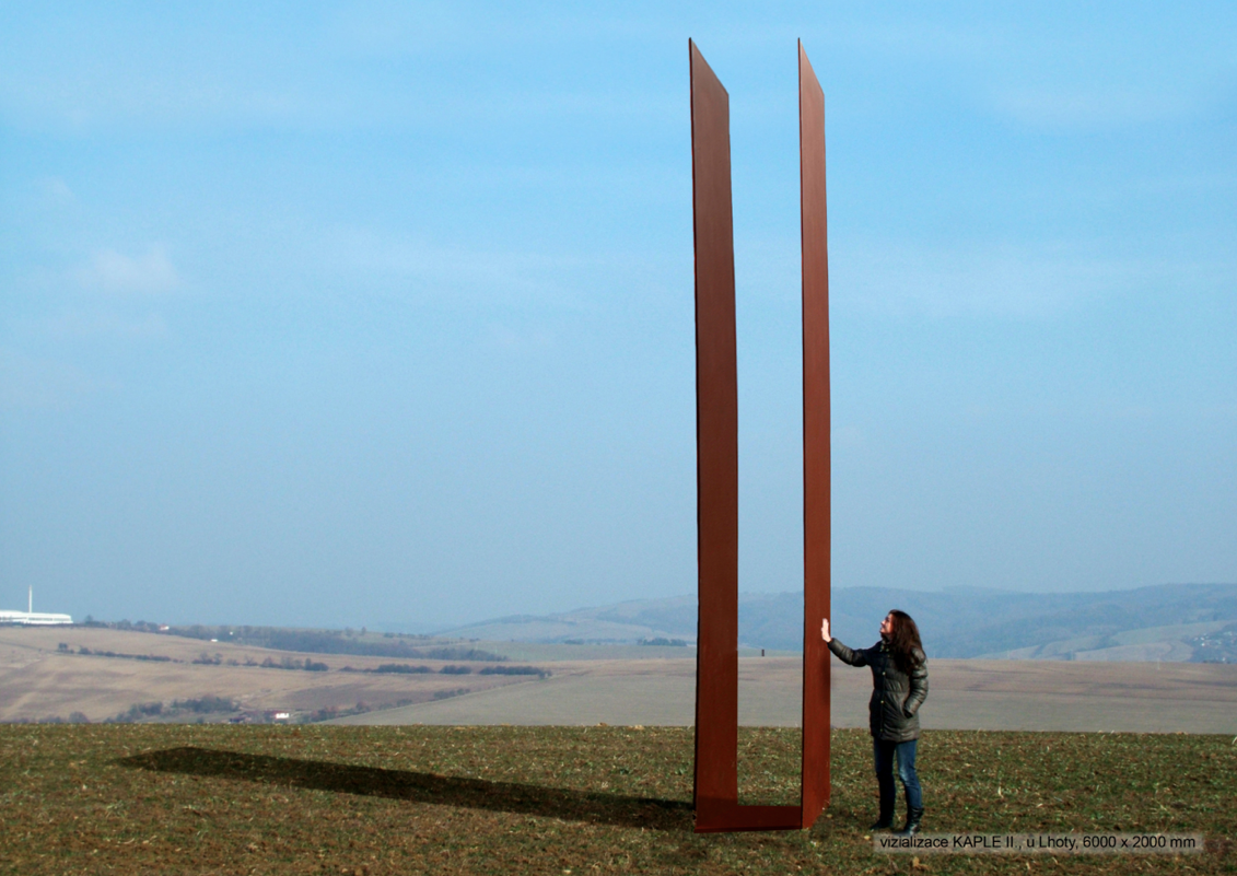 Kačírková, Chapel II - vizualization